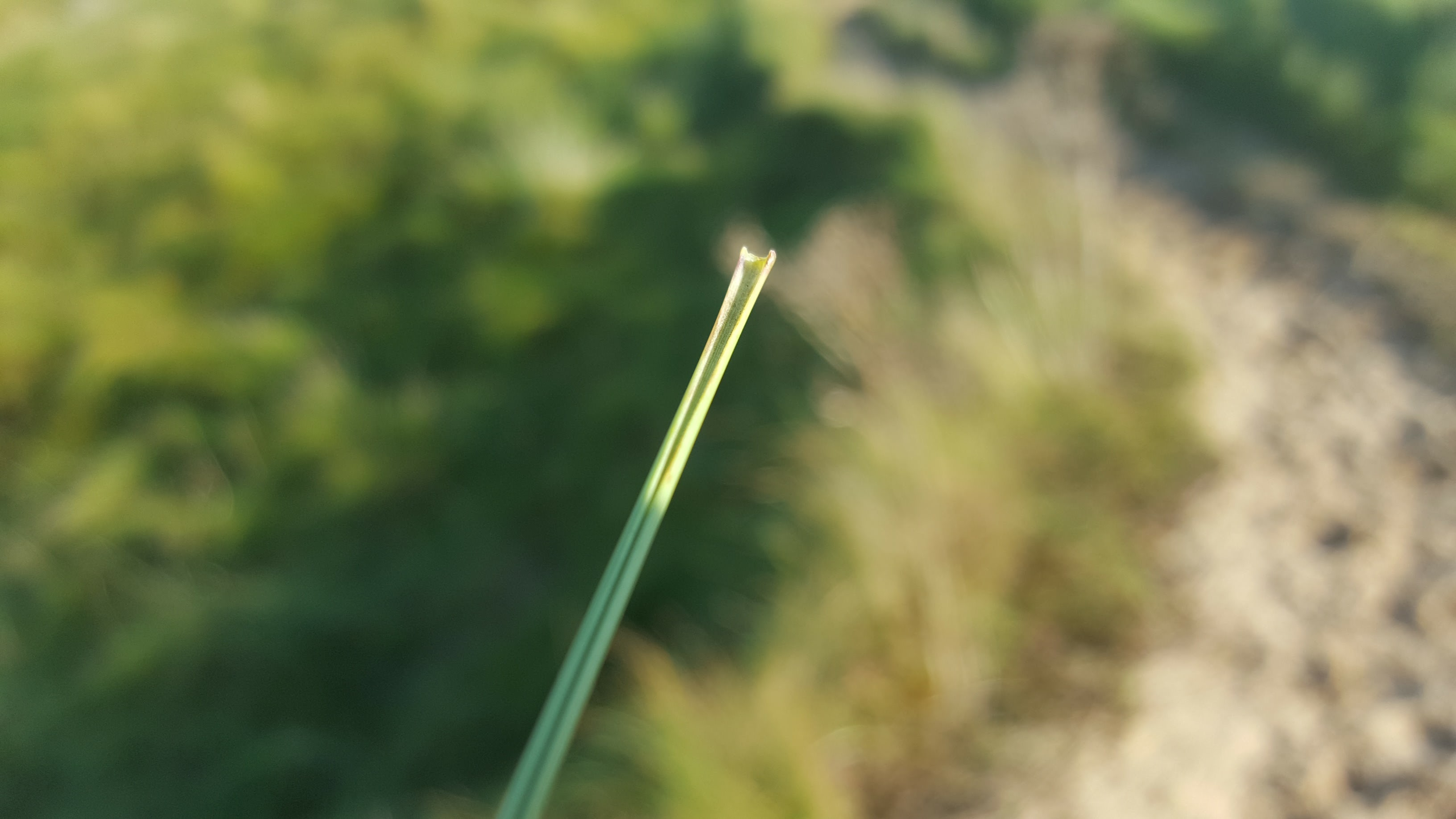 European Marram Grass (Ammophila arenaria) in Wales, showing a single leaf's rolled structure which reduces water loss